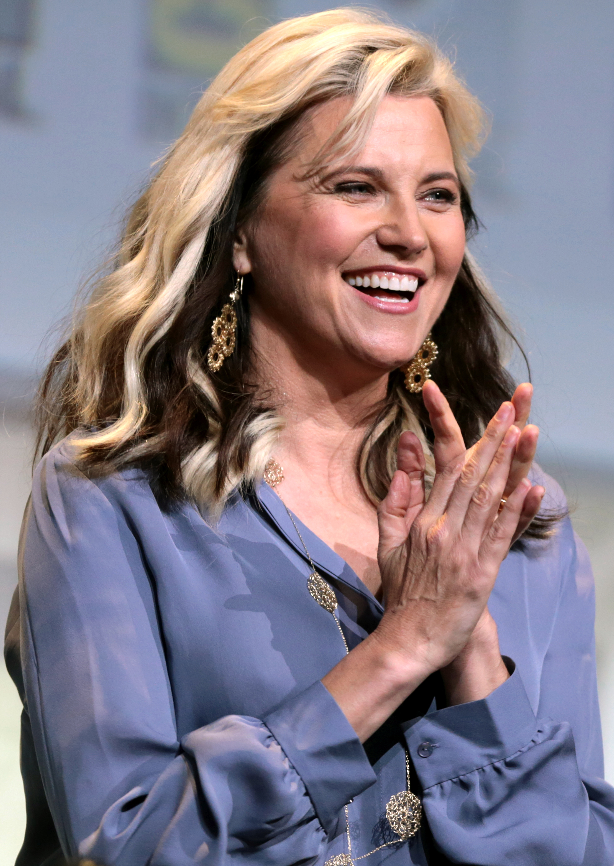 Lucy Lawless speaking at the 2016 San Diego Comic-Con International in San Diego, California.